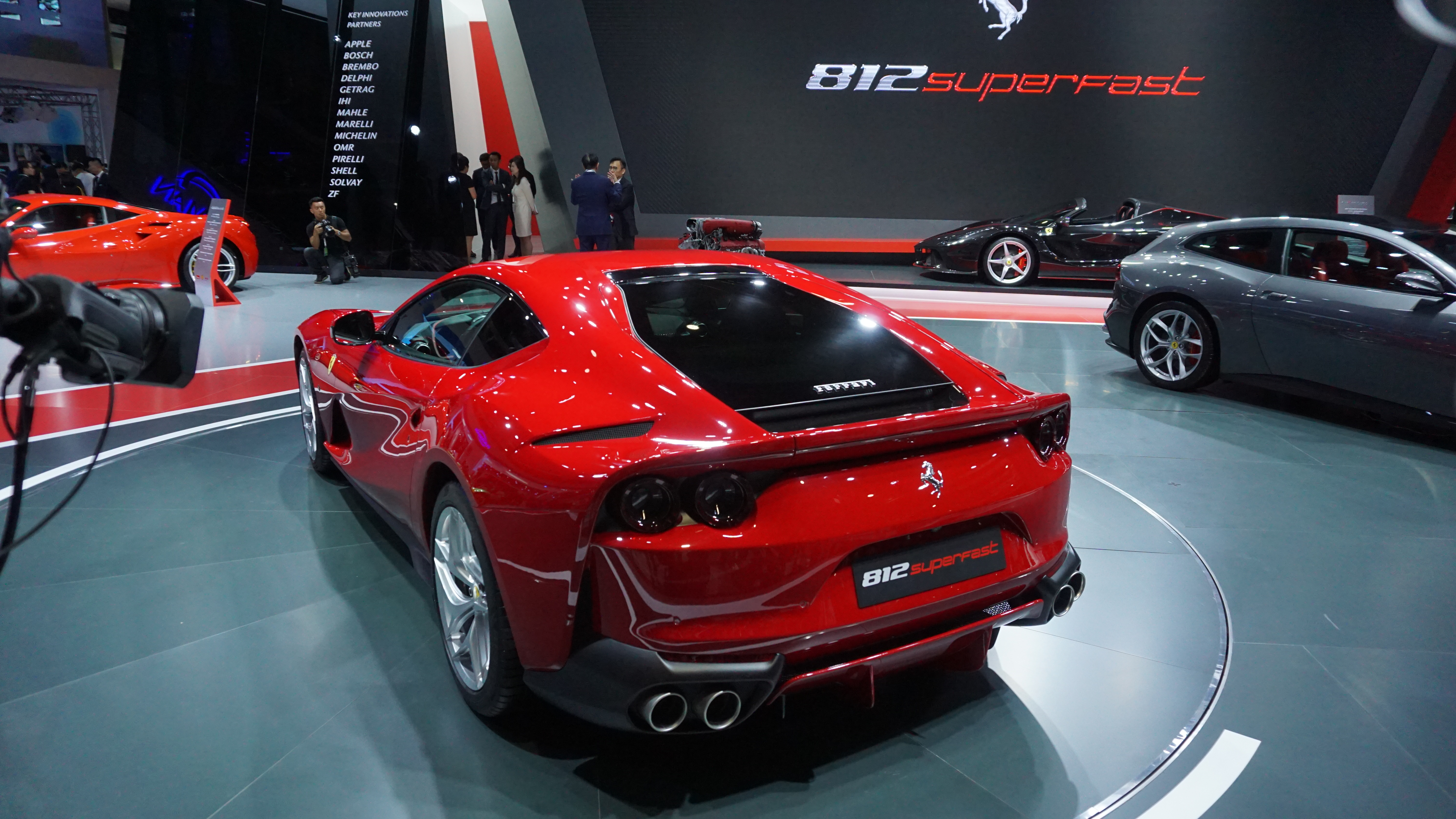 Rear view of the Ferrari 812 Superfast.